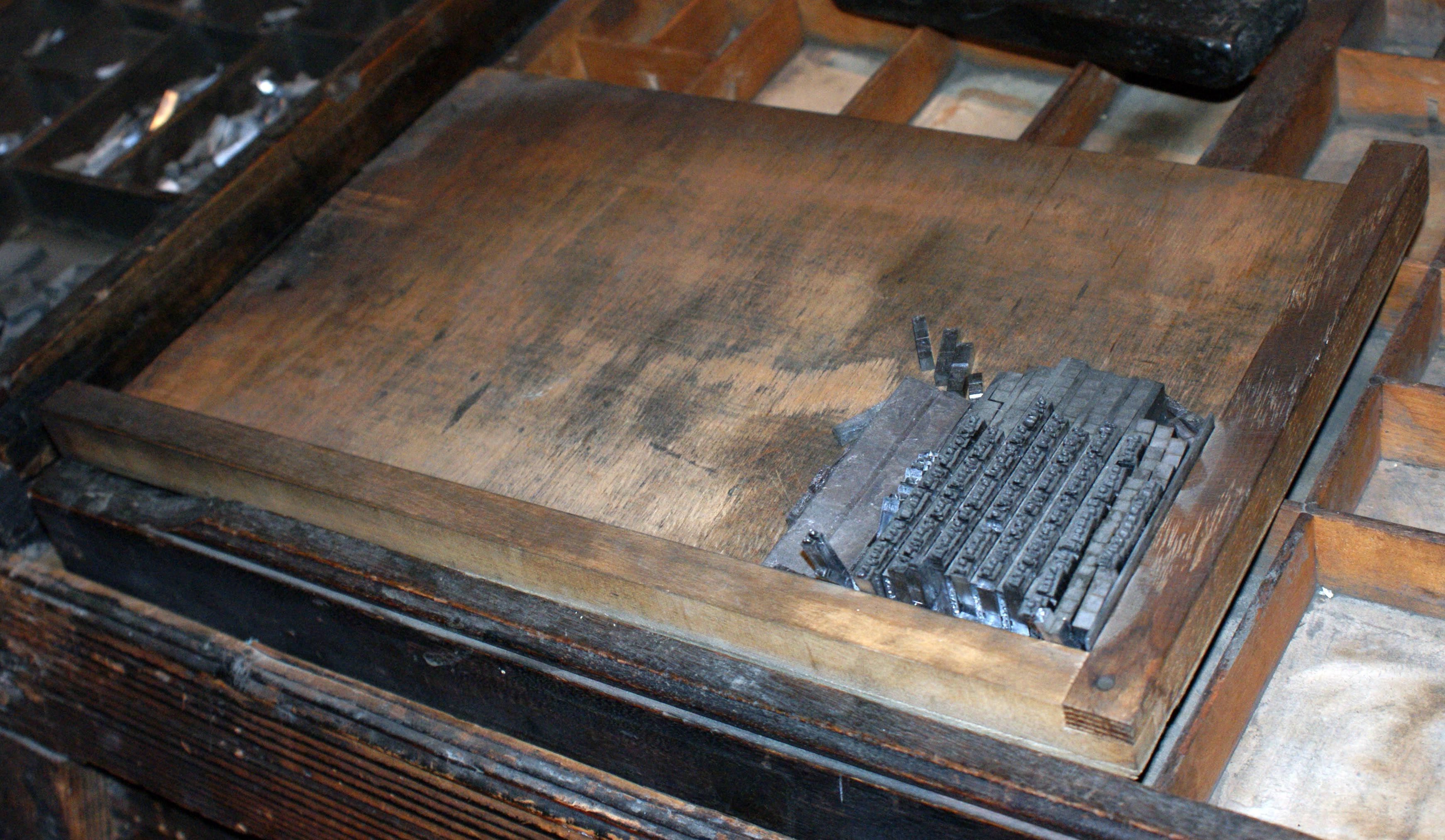 Tray to hold galley of type. Tray contains set type with leading pieces either side. Accession Number: SH.2009.393 Galleys are trays upon which type matter is assembled either as it is set by hand or by machine on which it can be proofed or stored Edinburgh City of Print is a joint project between City of Edinburgh Museums and the Scottish Archive of Print and Publishing History Records (SAPPHIRE). The project aims to catalogue and make accessible the wealth of printing collections held by City of Edinburgh Museums. For more information about the project please visit